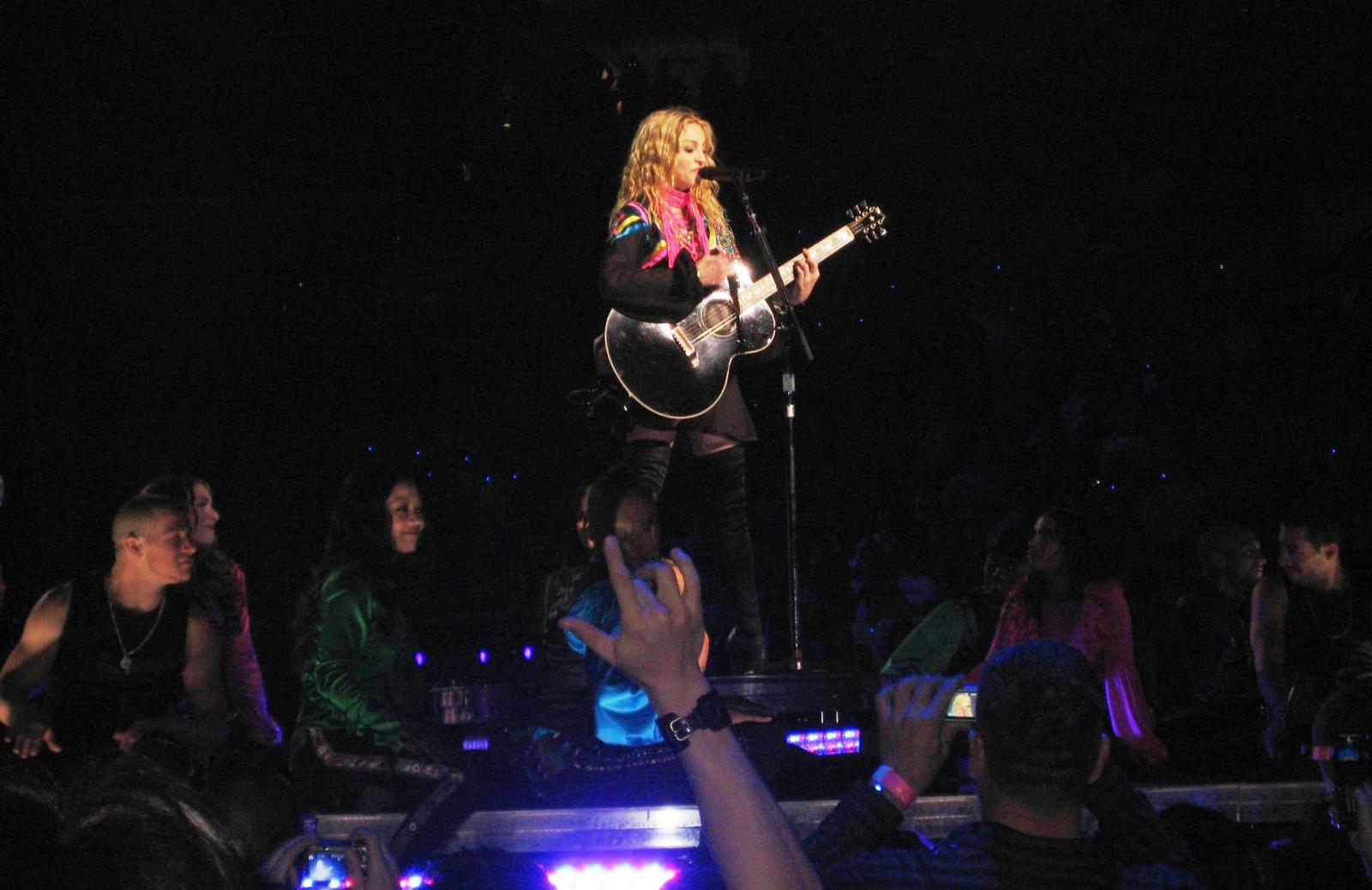 Madonna being surrounded by her dancers as she starts singing "Miles Away"